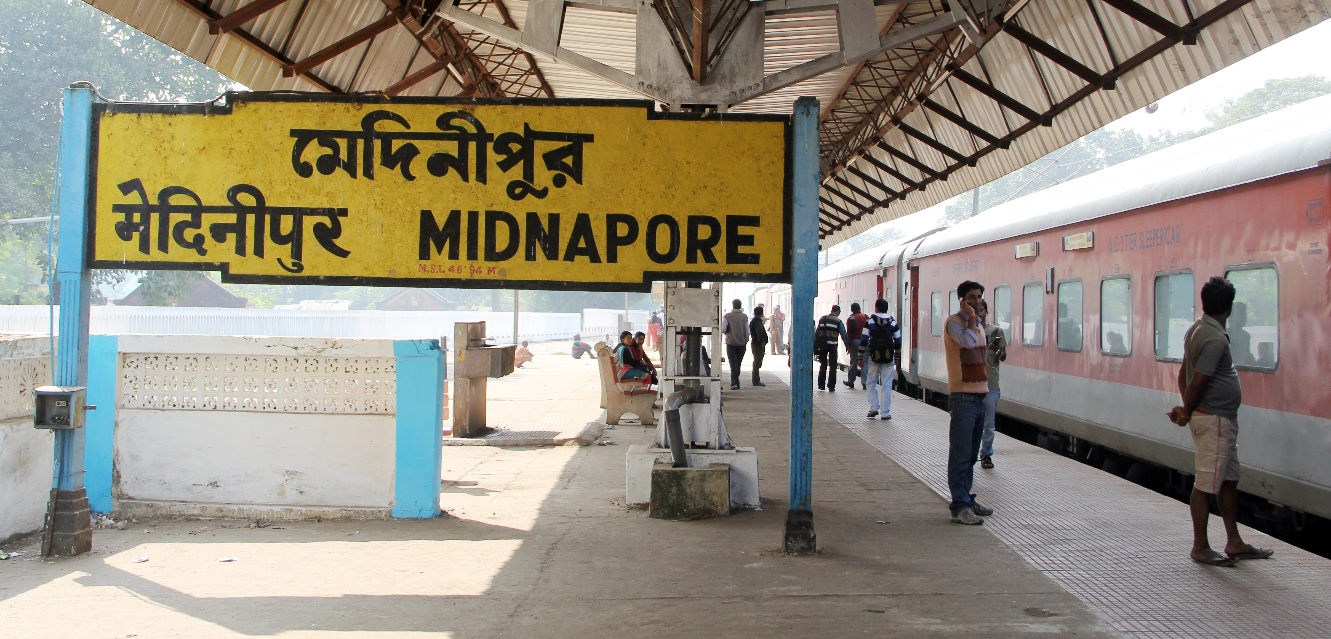 ଓଡ଼ିଆ: Midnapore (also written as Medinipur and Midnapur). is a town in West Bengal, India. This media file is uploaded with Odia loves Wikipedia English |italiano |македонски |മലയാളം |ଓଡ଼ିଆ +/−